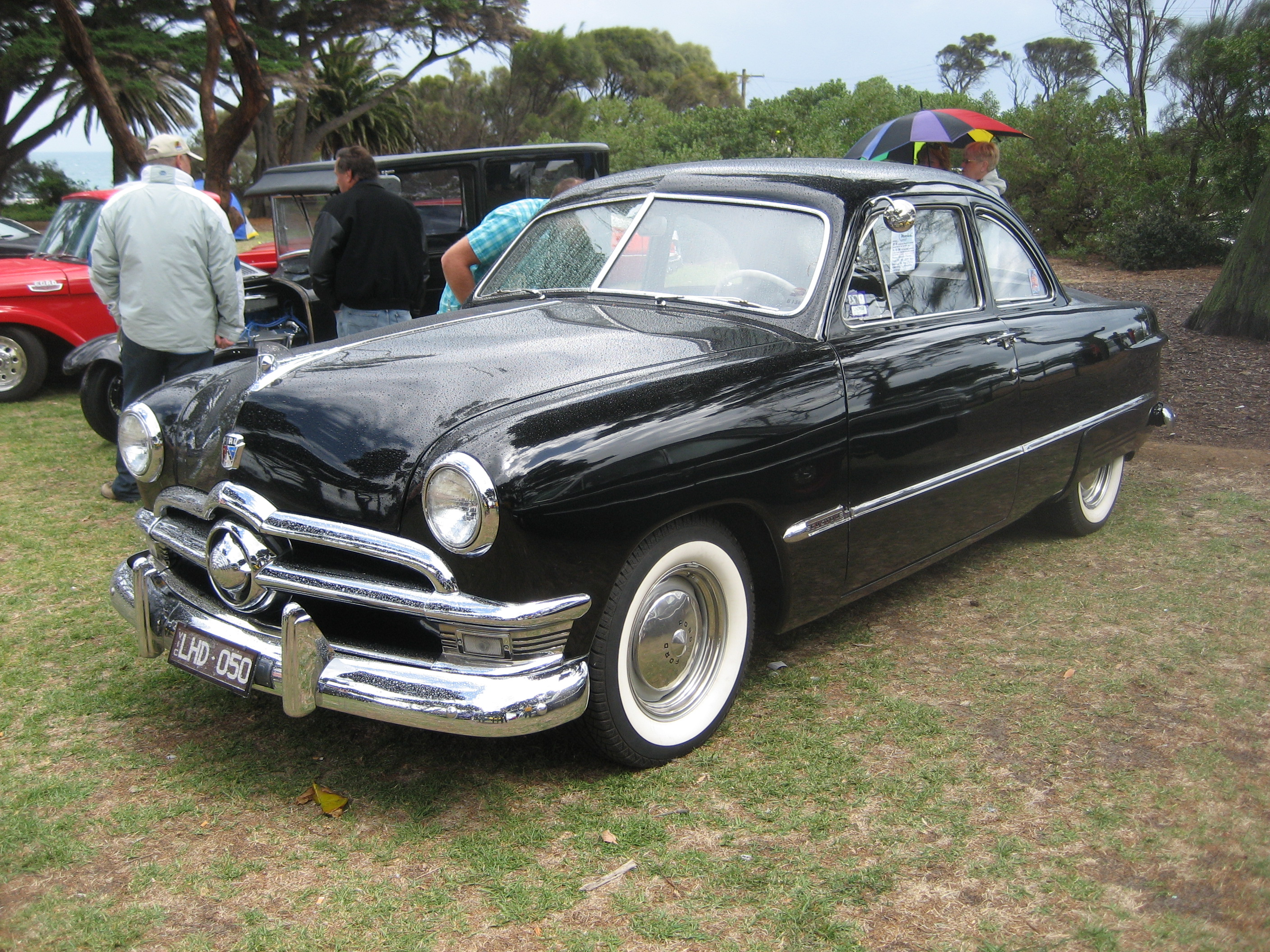 New body for 1949, 1949,50 got single spiiner in centre of grille. Available in Standard or Custom. (Crestliner also in 1950). 2 or 4 door sedans and 2 or 4 door wagons, also convertible. Engine; 226 6 cyl or 239 Flathead V8